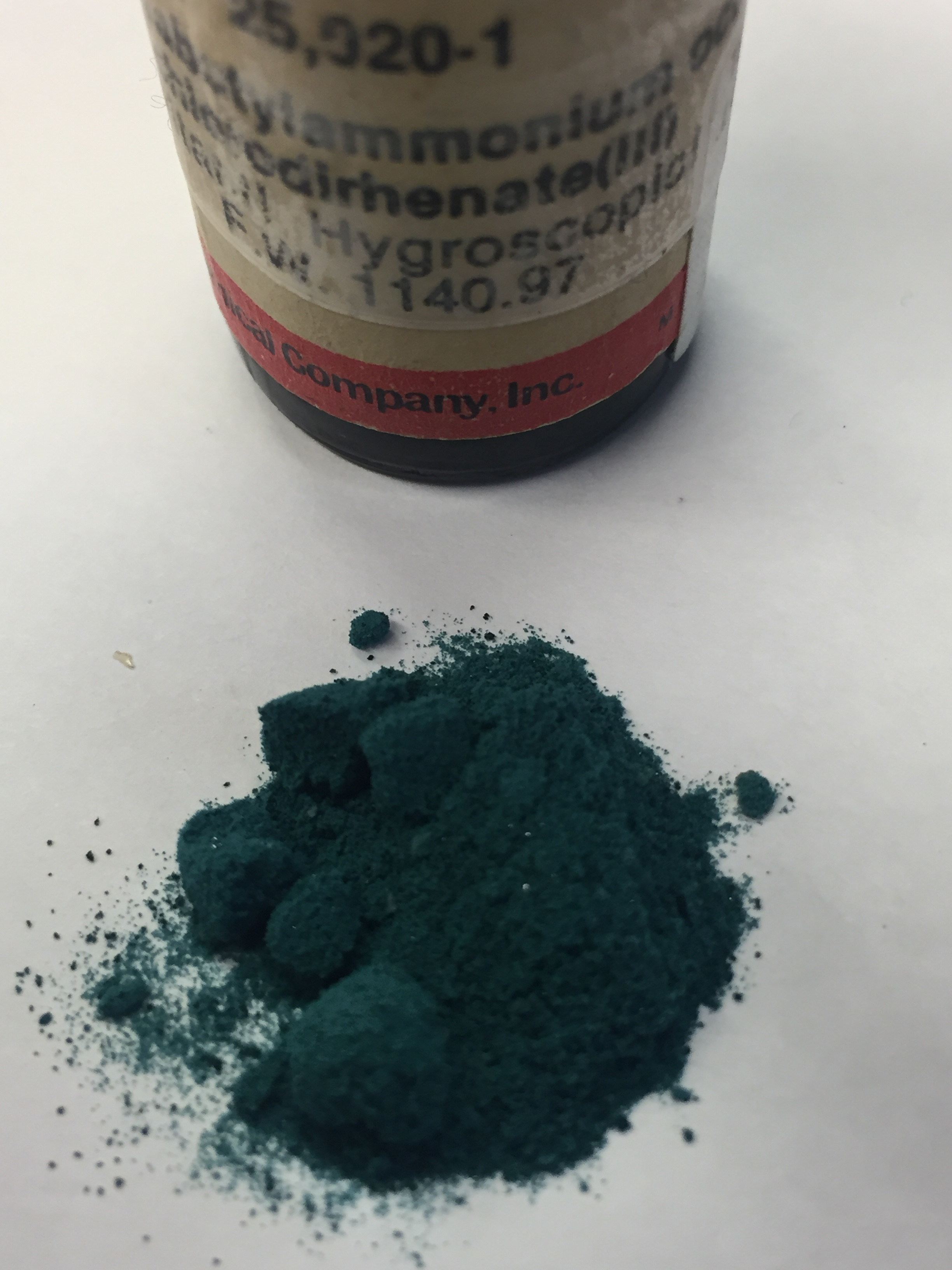 sample of (NBu4)2Re2Cl8, illustrating the blue-green chromophore [Re2Cl8]2